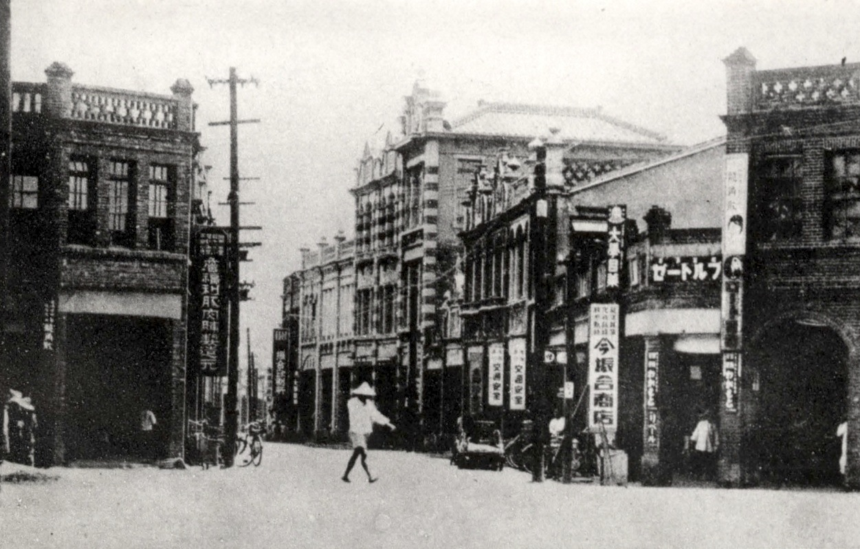 Town street of Toen